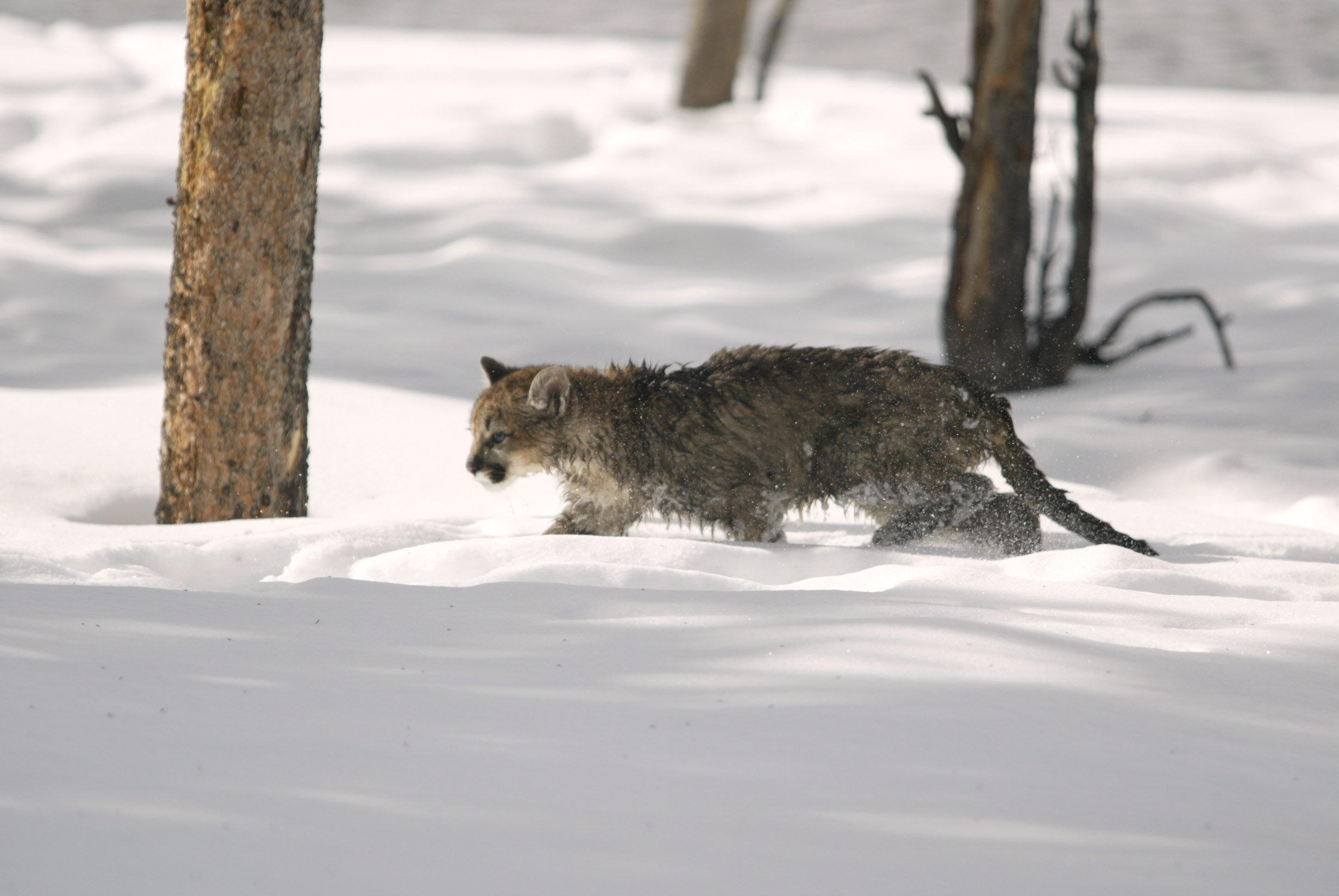 Mountain lion kitten walking through the snow